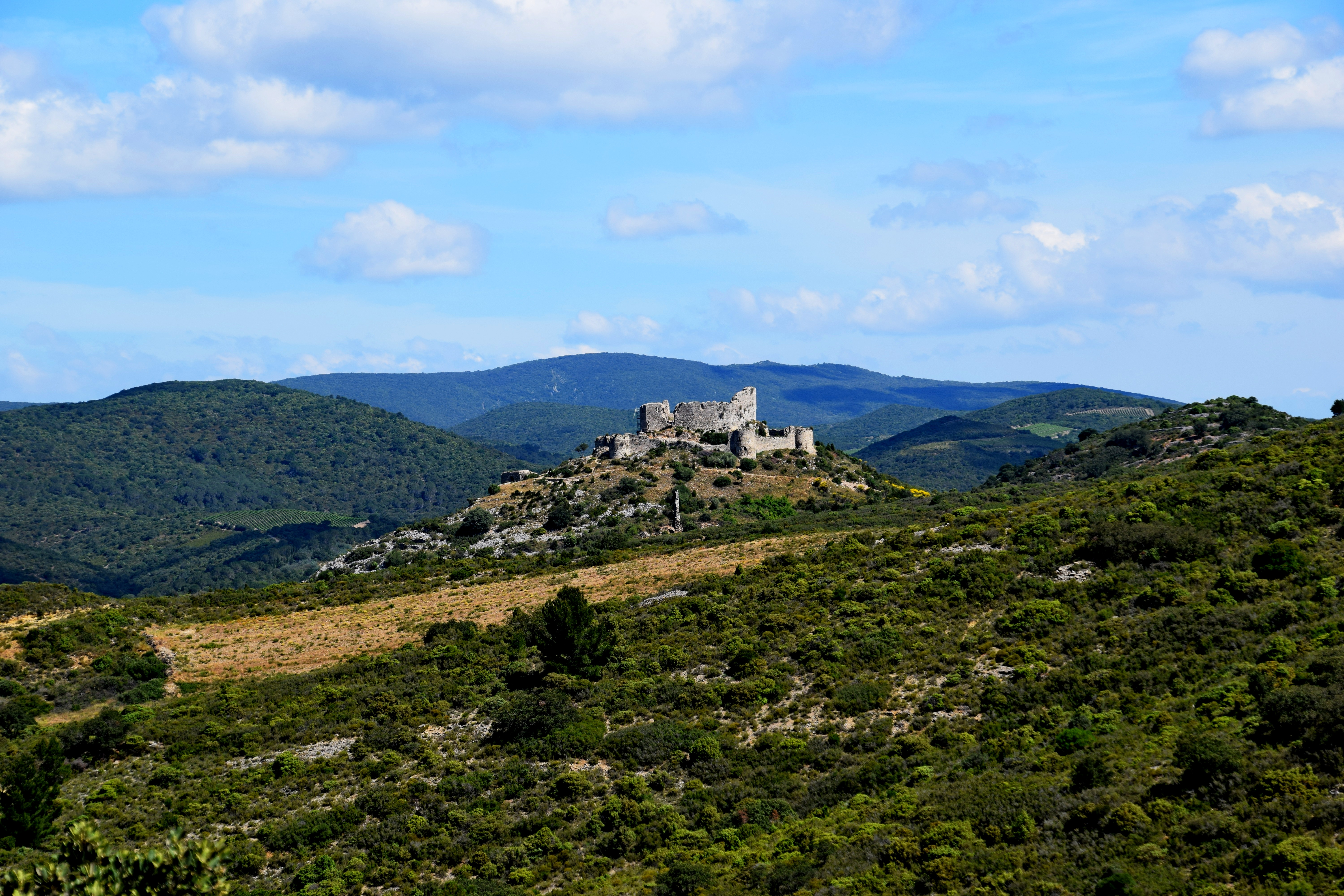 castle of Aguilar, Tuchan